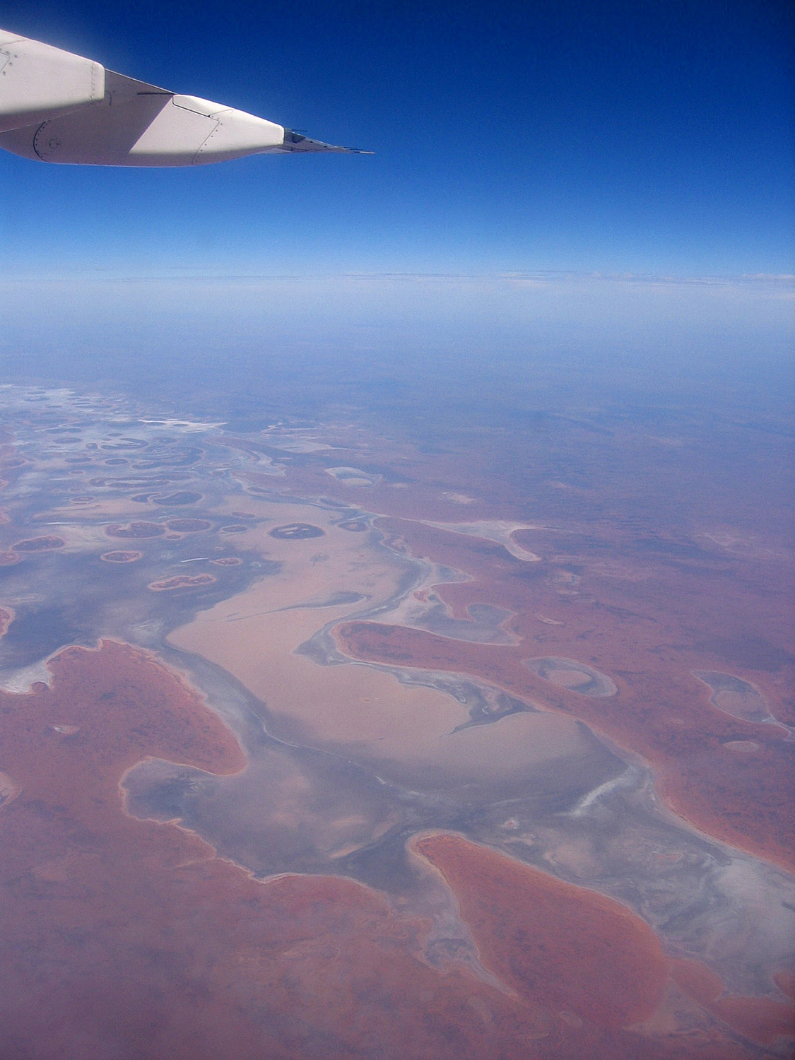 Lake Amadeus, Northern Territory, Australia – seen from a plane